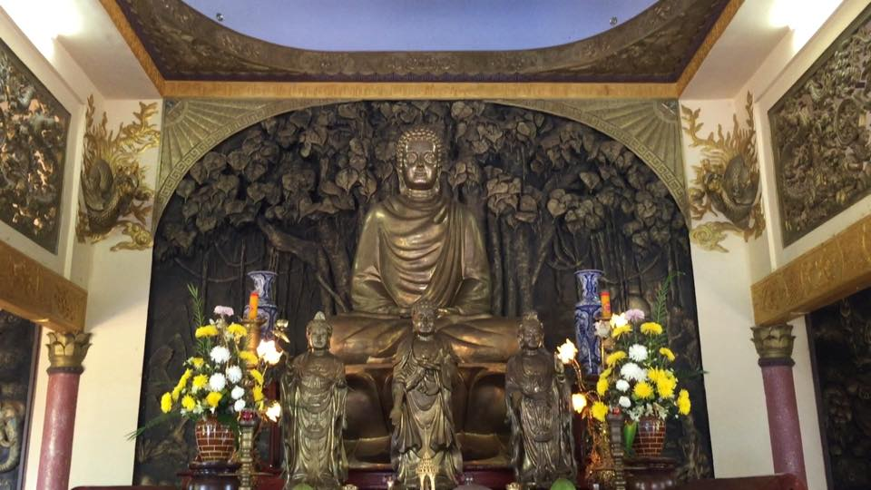 major Power